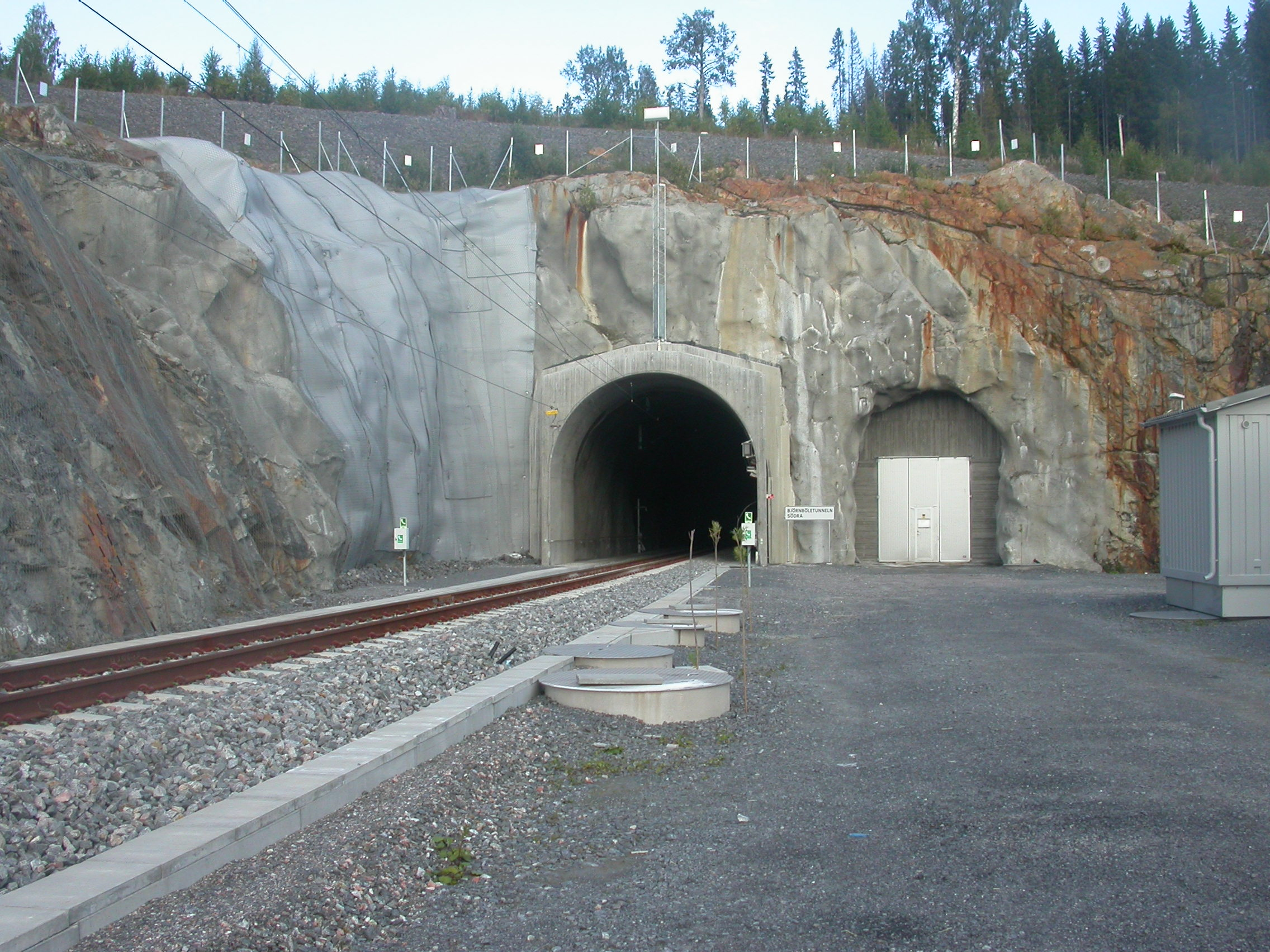 South entrance of Björnböletunneln on Botnia railway line in Sweden